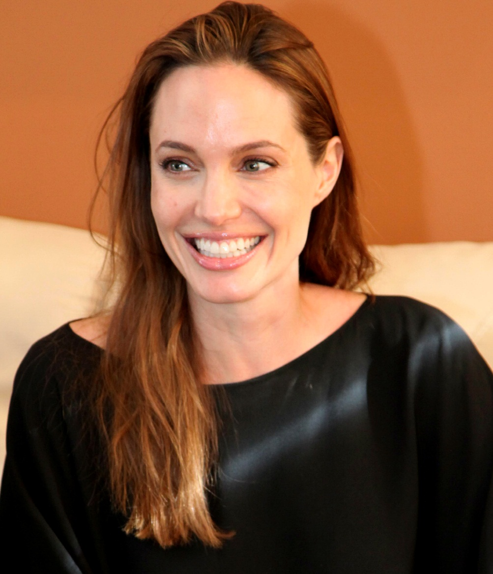 Quito (Ecuador): Actress Angelina Jolie meeting with the Minister of Foreign Affairs, Trade and Integration. Eco Ricardo Patiño. April 22, 2012